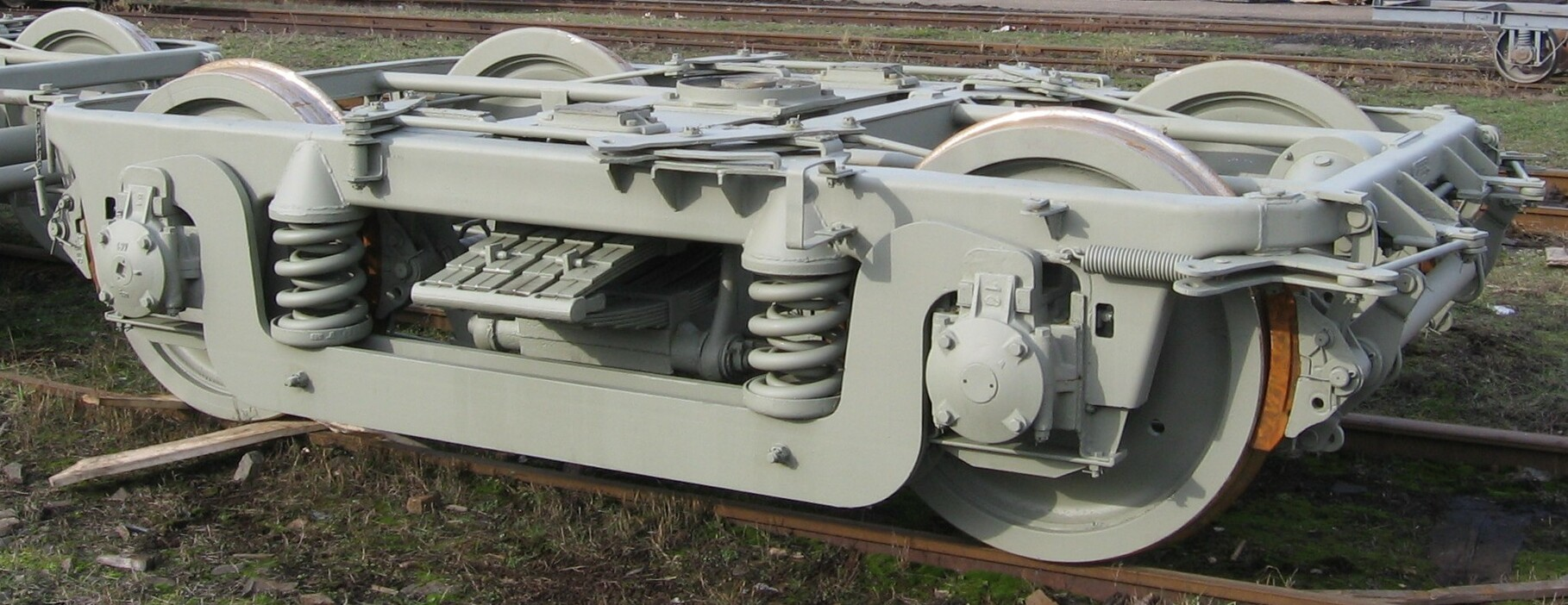 Trailing bogie of ČD EMU class 451